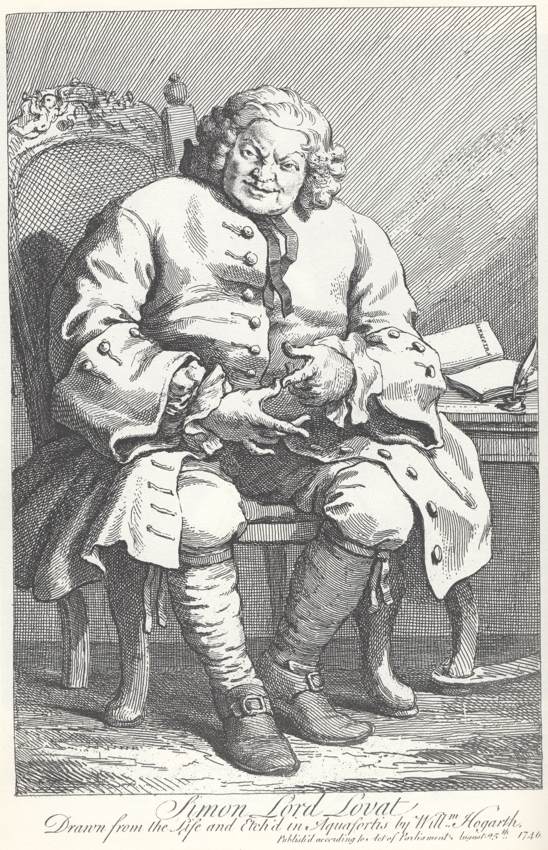 William Hogarth - Simon, Lord Lovat